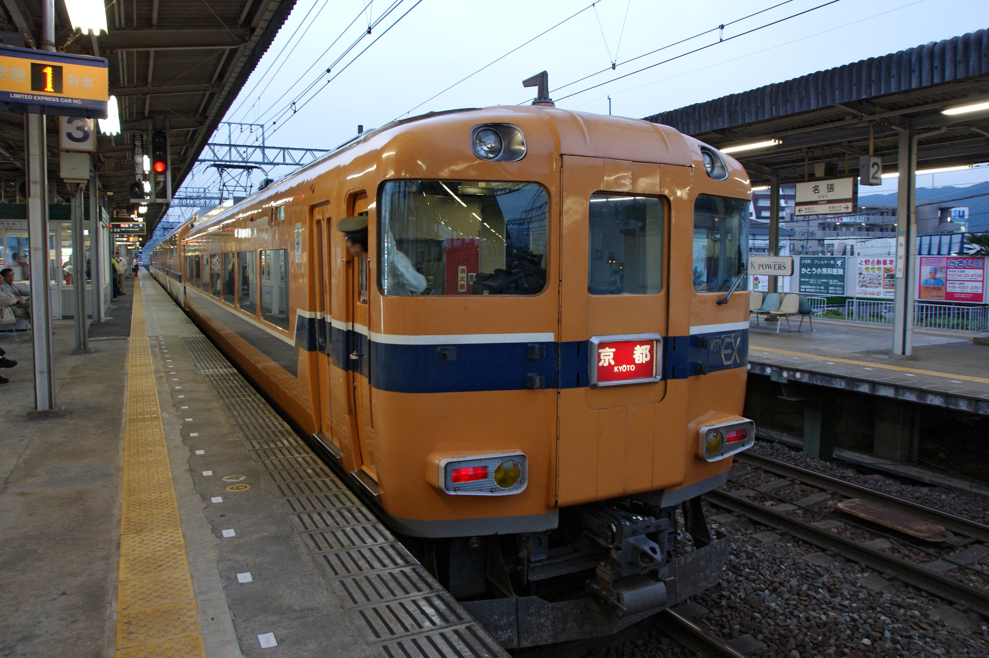 Nabari Station, Nabari, Mie prefecture, Japan